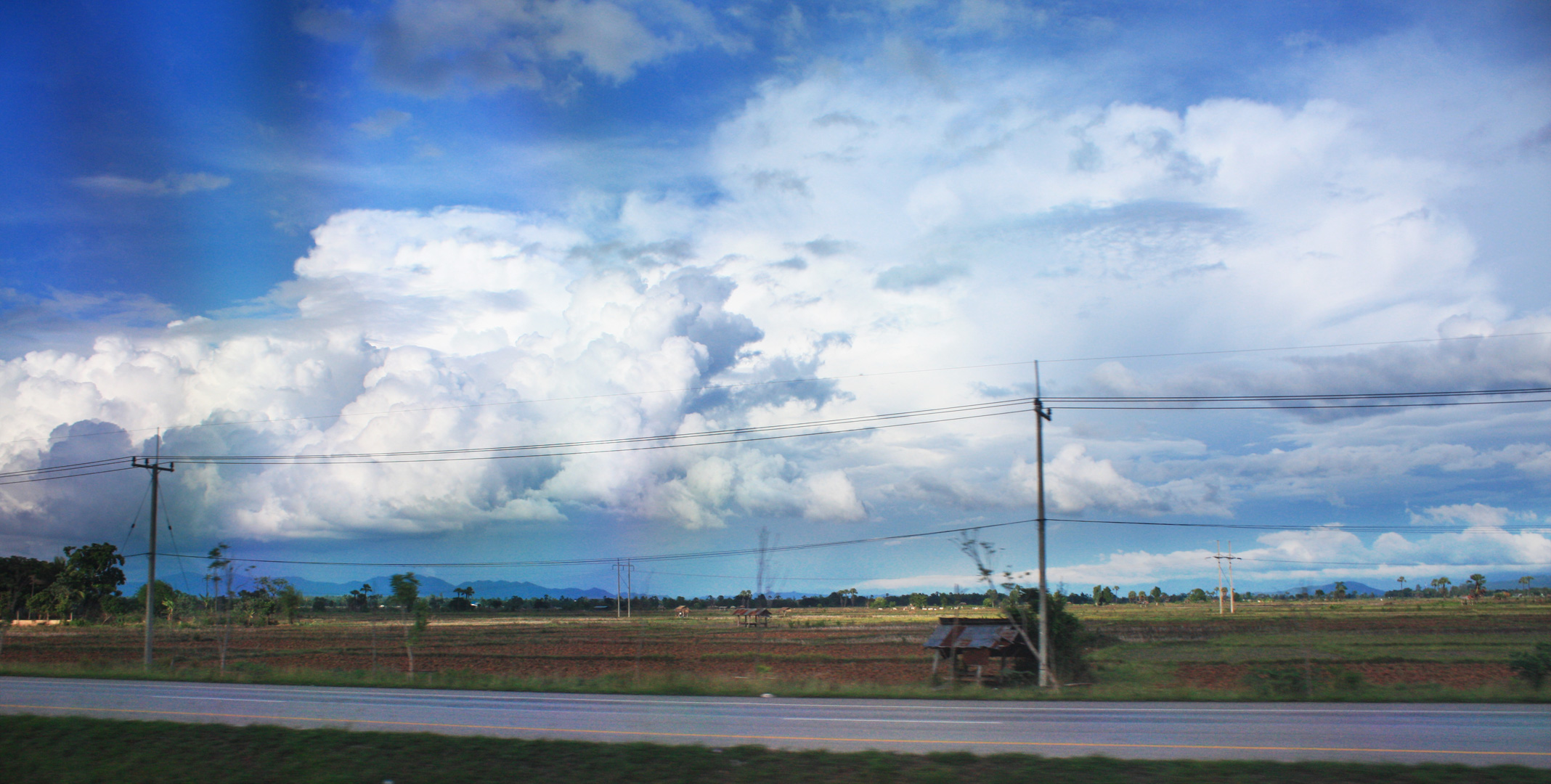 On Highway 1 in Amphoe Ko Kha, Lampang Province, Northern Thailand